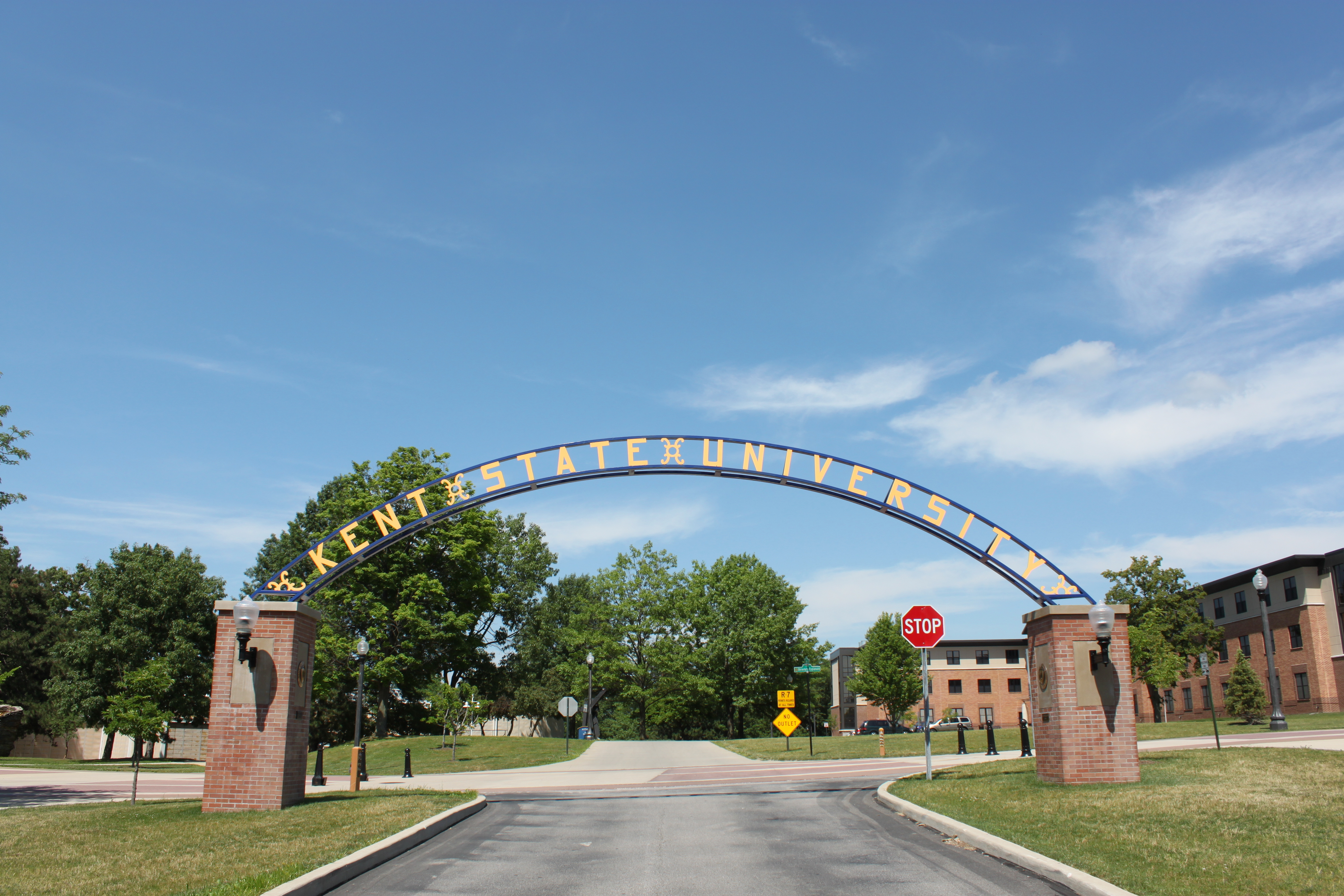 Kent State's Gateway Arch